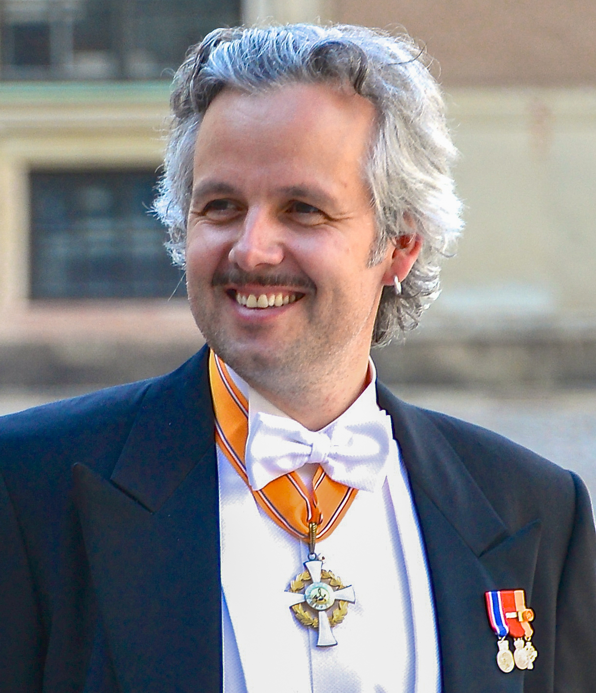 Ari Behn on the way to the castle church at the Royal Palace in Stockholm before the wedding between Princess Madeleine and Christopher O'Neill June 8, 2013.